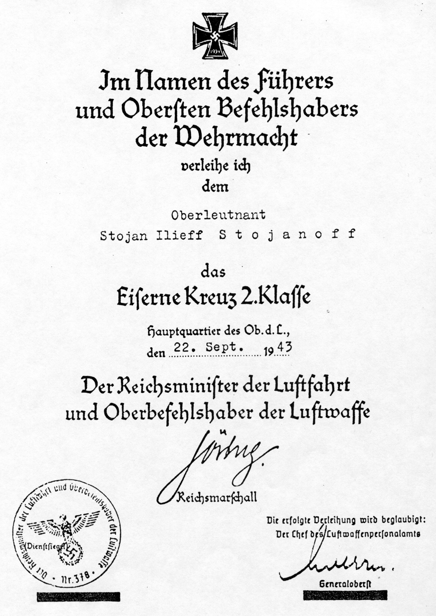 Document awarding the Iron Cross to Bulgarian WW2 ace Stoyan Stoyanov